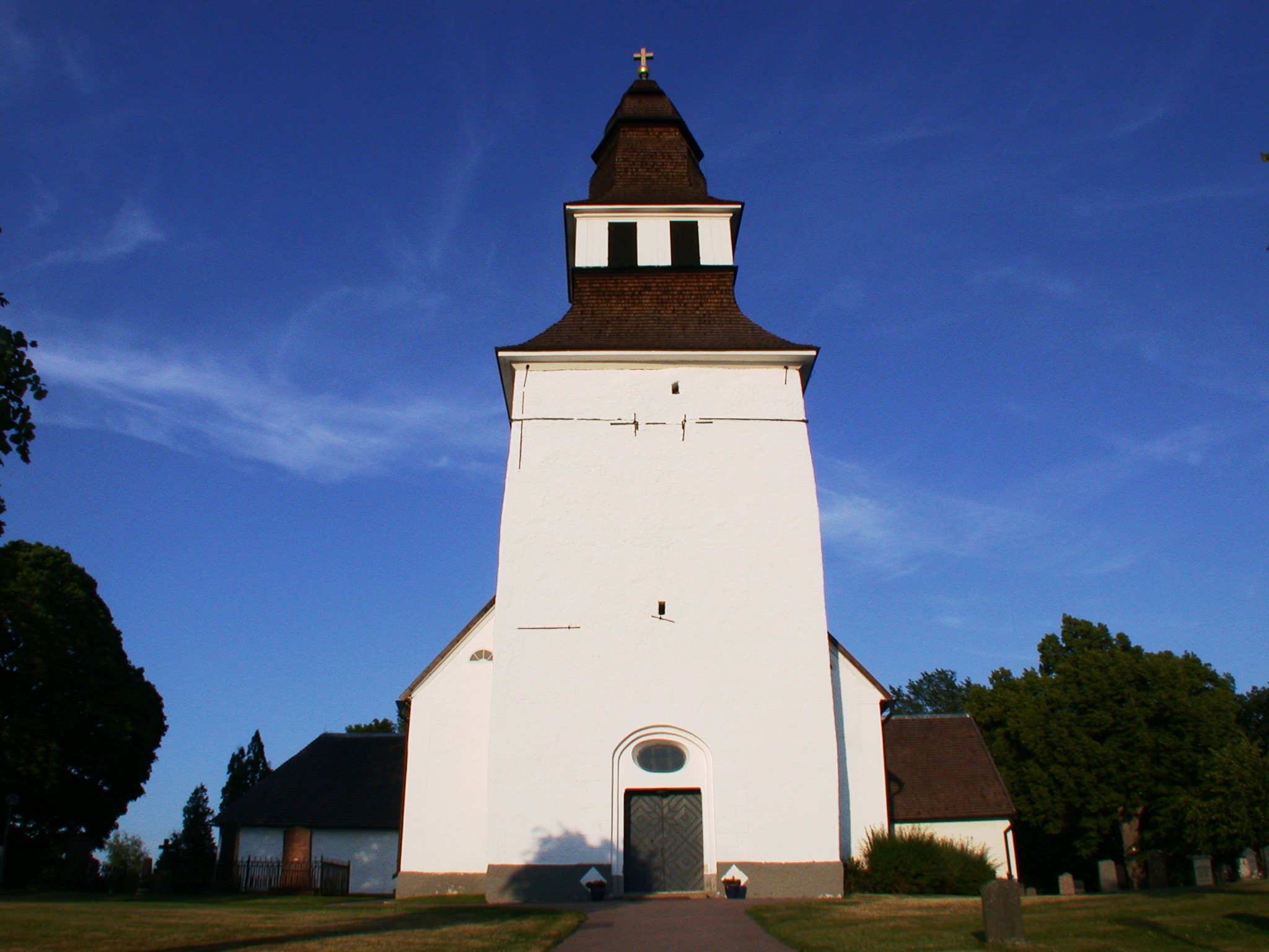 Kristberg church, Motala, Sweden. Photo by Riggwelter, July 12, 2006.